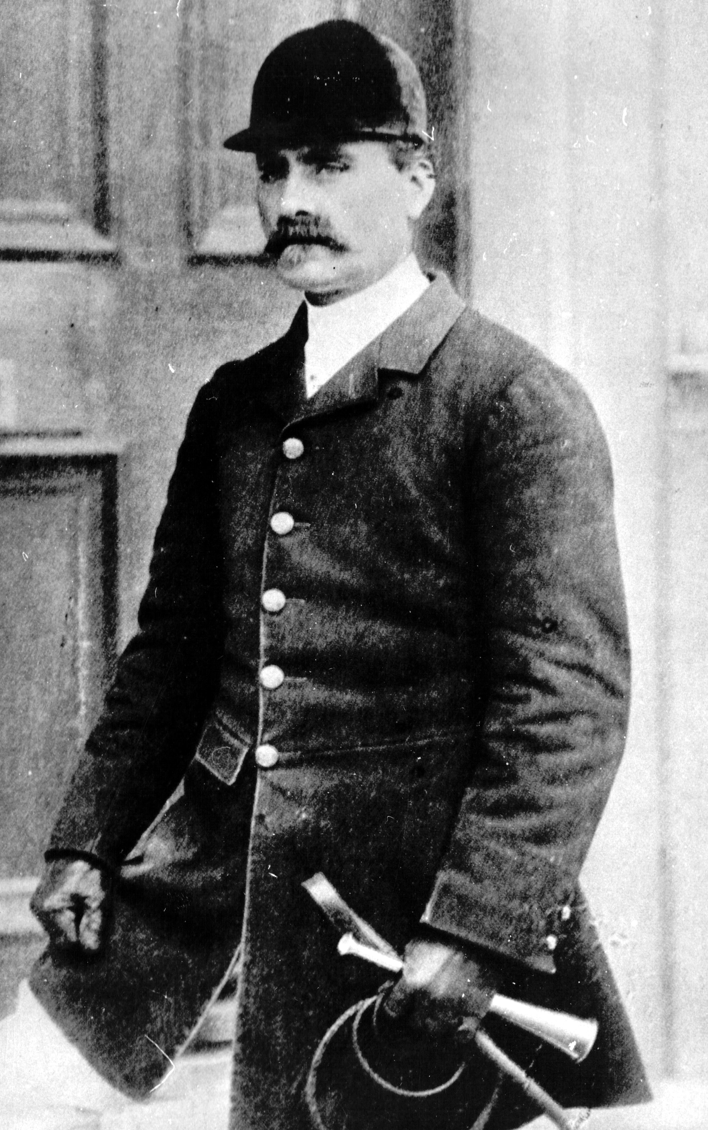 The 15th Earl of Eglinton at Eglinton Castle, Irvine, North Ayrshire, Scotland